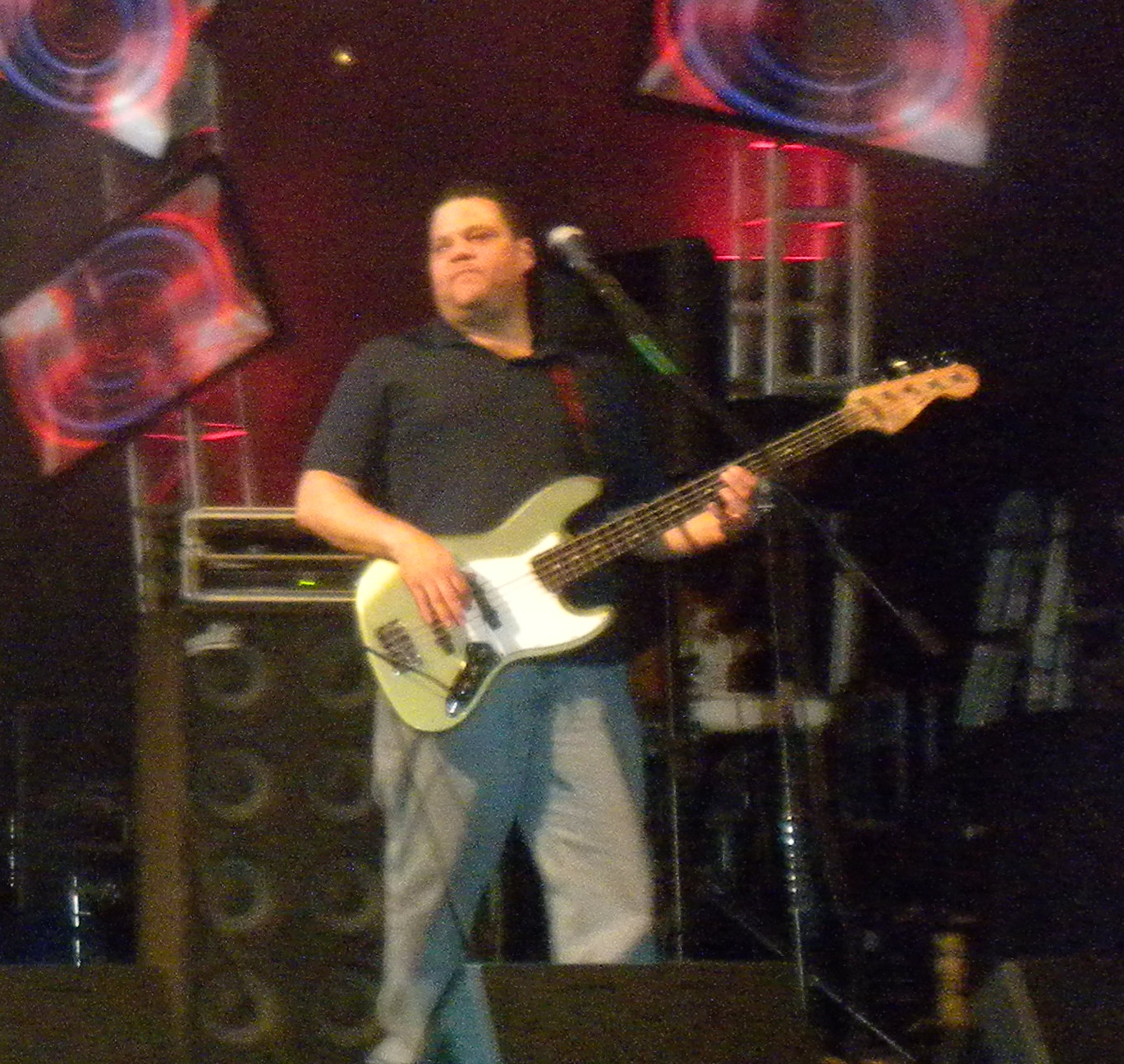 Jorge Arraiza performing with Fiel a la Vega at Mayaguez, Puerto Rico in 2010.